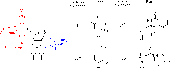 Structure of Protected 2'-Deoxynucleoside Phosphoramidites